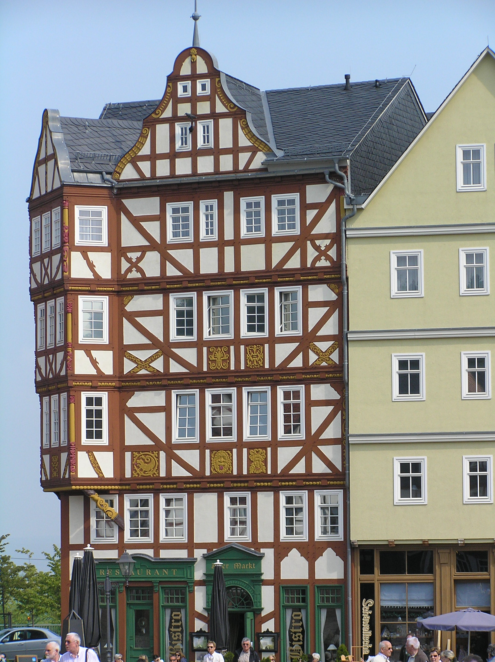 Hotel at Hessenpark, Hesse, Germany